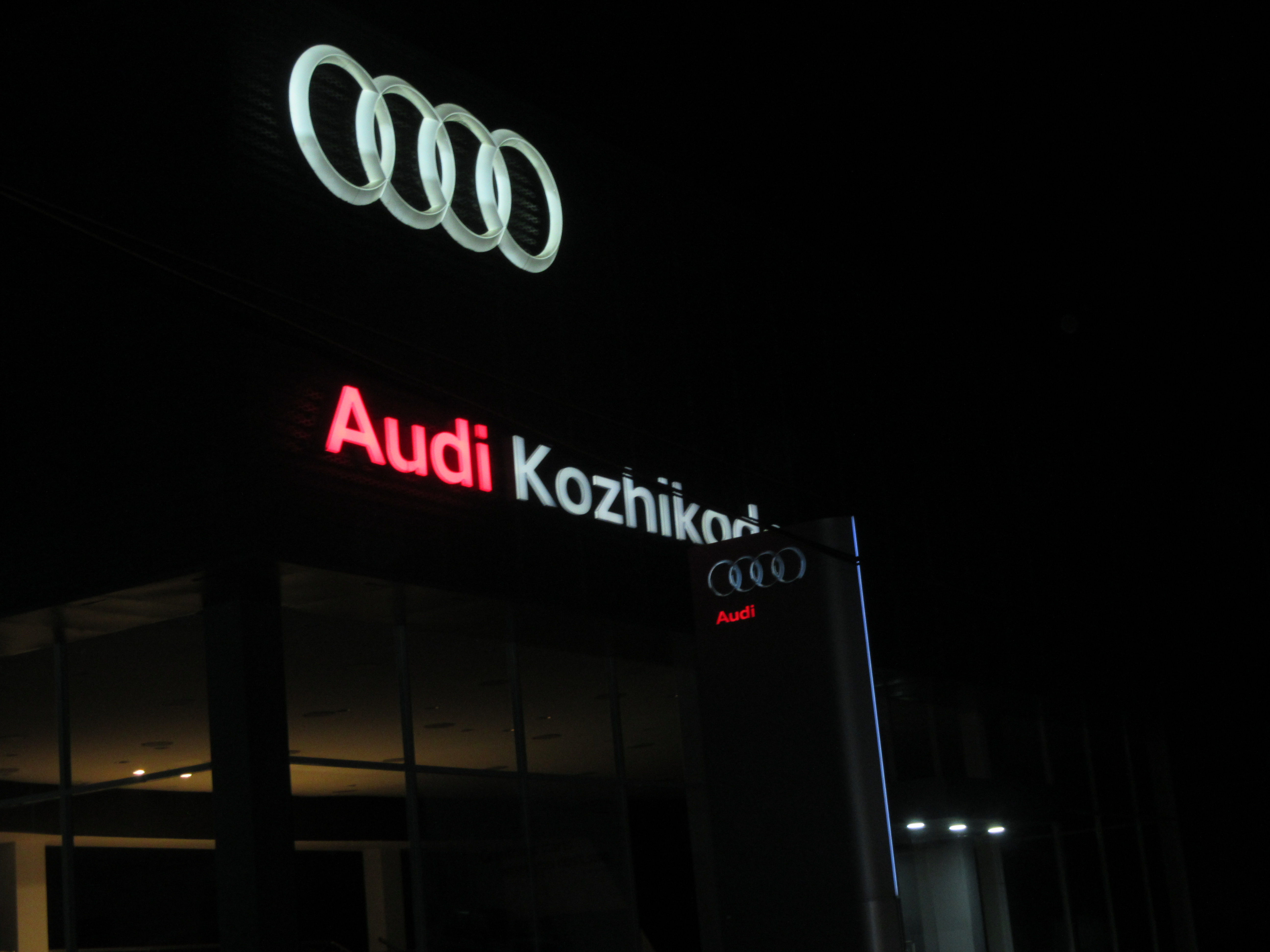 Audi Kozhikode showroom in Pavangad